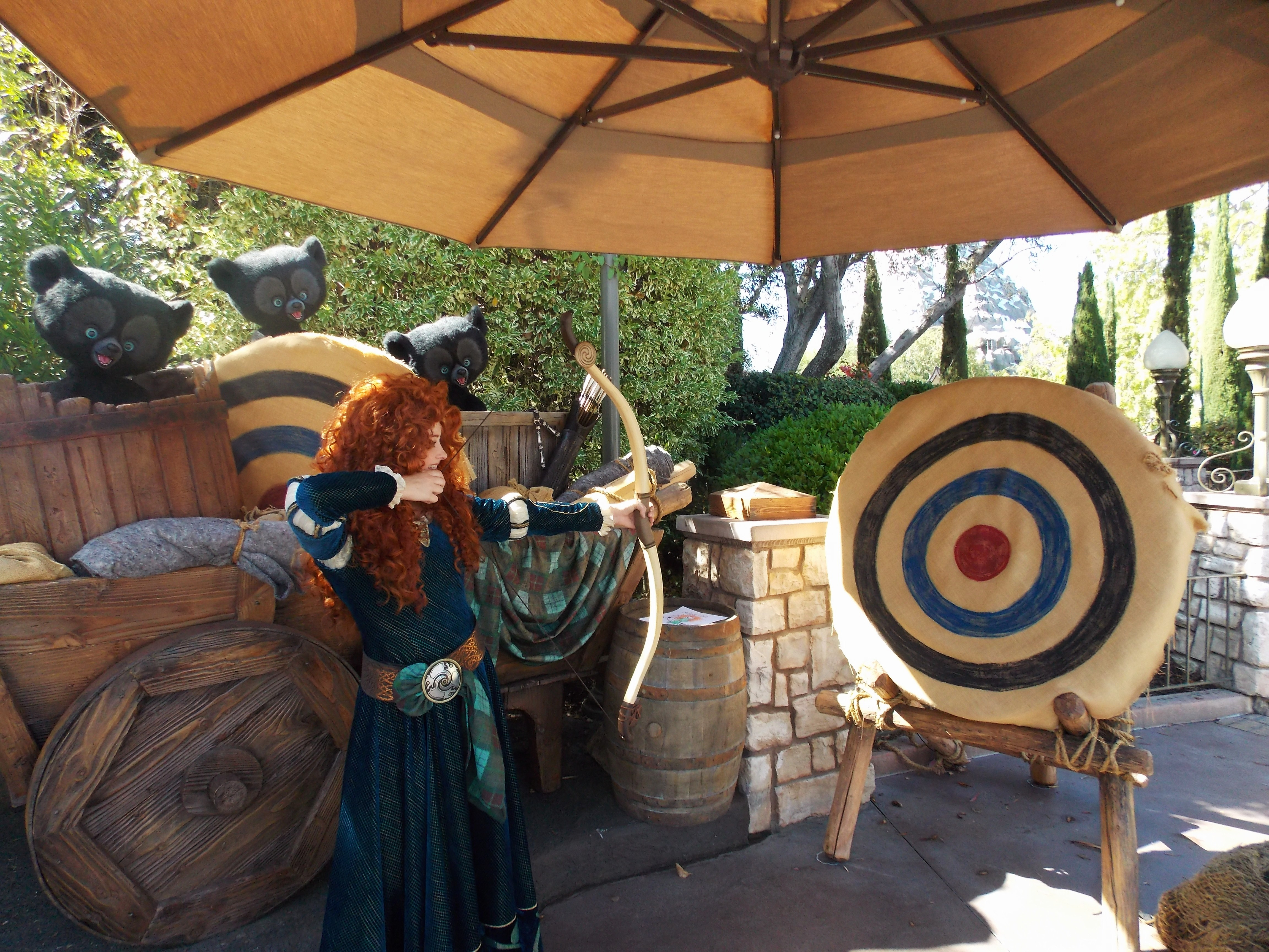 Actress portraying Merida from Disney-PIXAR film Brave shoots her bow and arrow at a target, Disneyland.